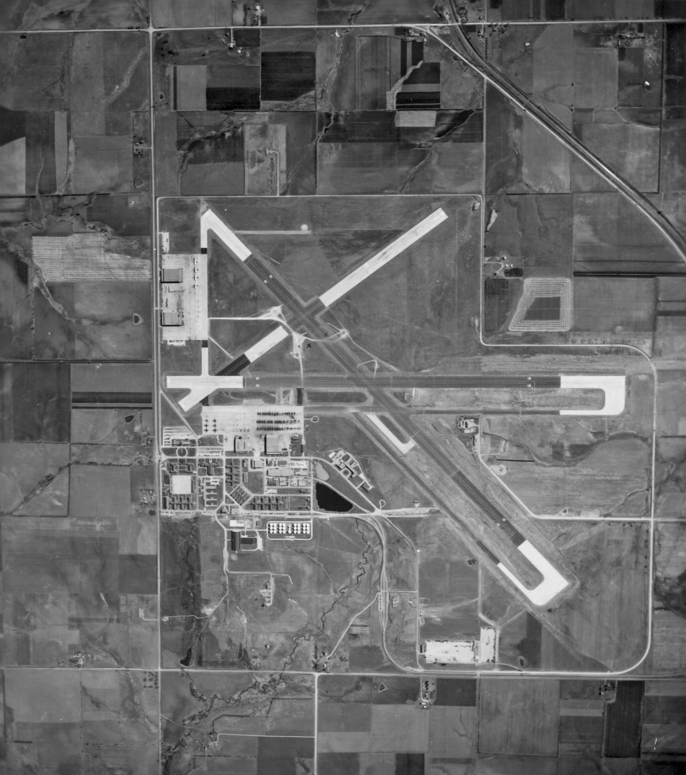 Aerial view of the U.S. Naval Air Station Olathe, Kansas (USA), circa 1944.